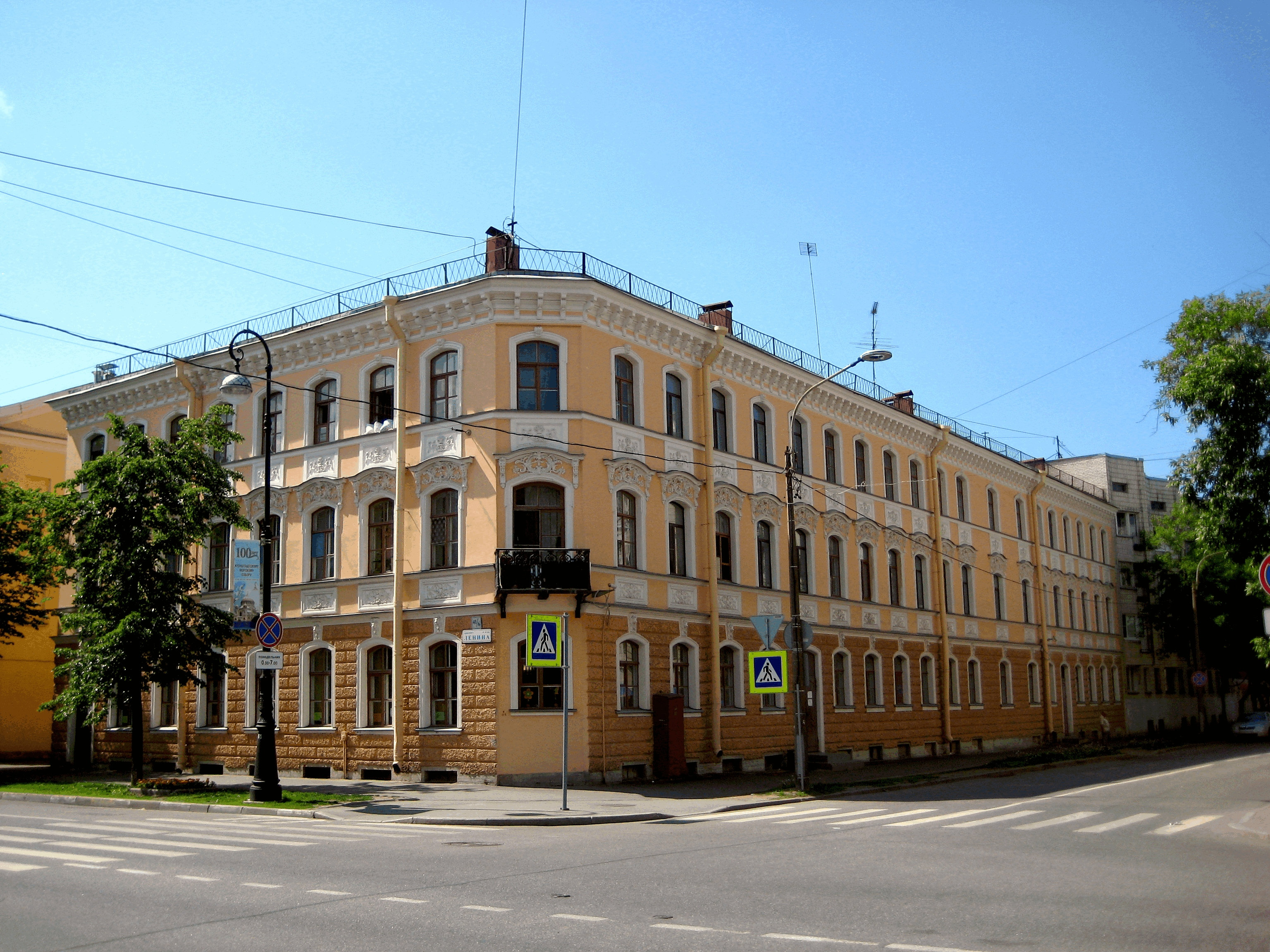 Kronstadt. Residential house. Lenina Prospect, 41